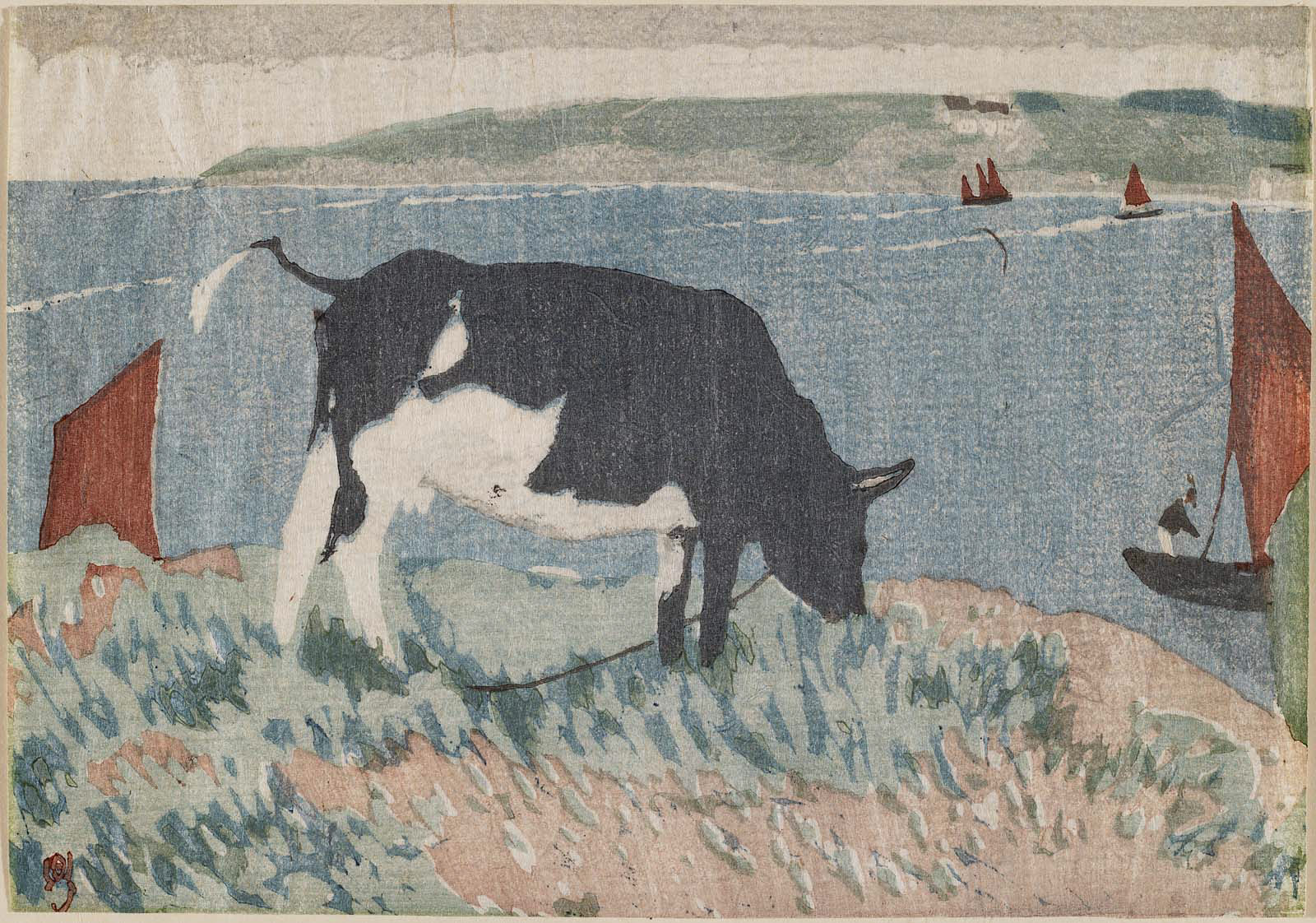 Woodblock print by Japanese artist Kanae Yamamoto